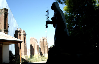 Virgen de la Iglesia de San Francisco de Curicó.